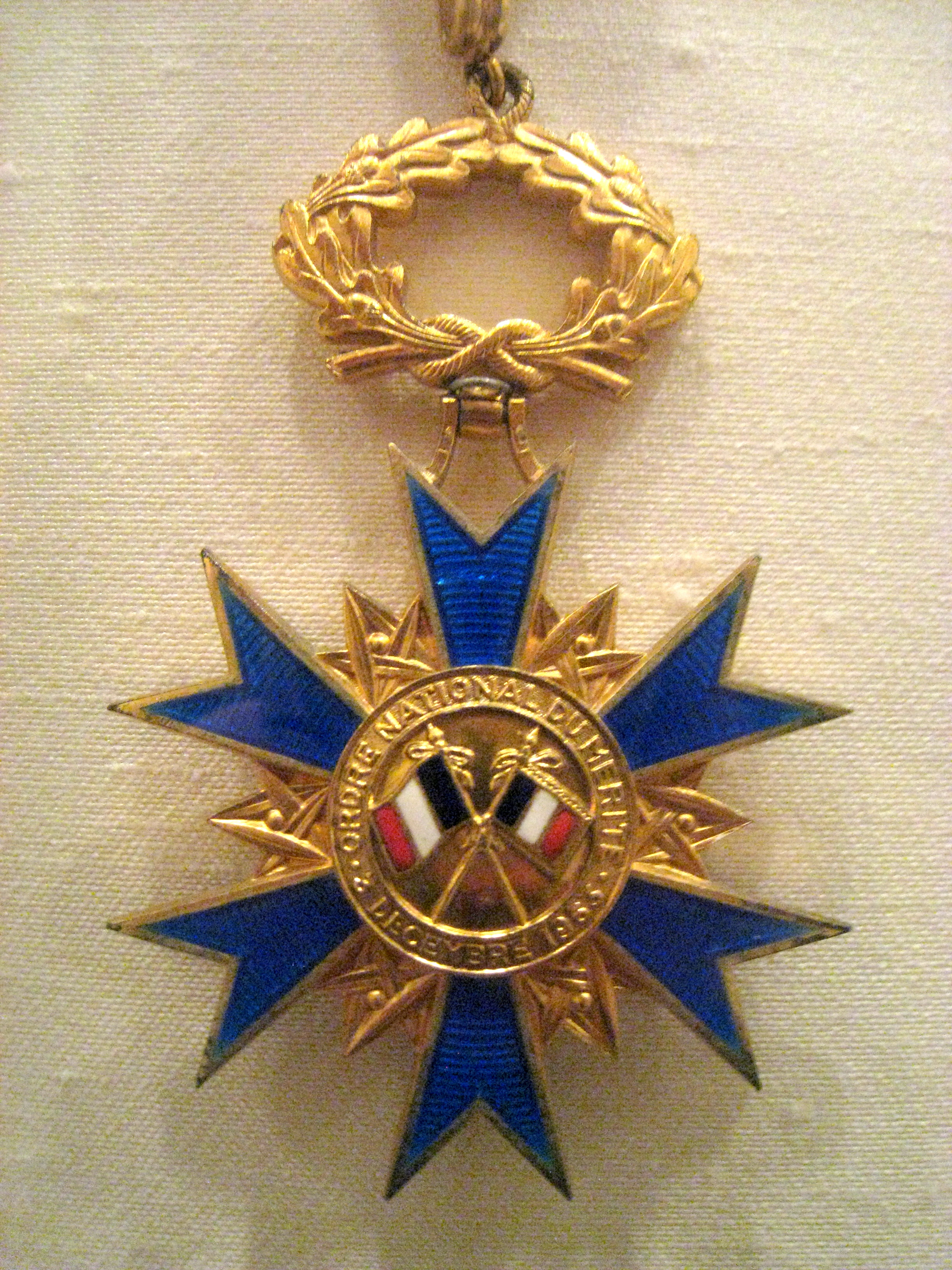 Order of Merit of the French Republic (Grade of Commander). Reverse side. Presented to Ambassador Angier Biddle Duke, and now on display in the Washington Duke Inn, Durham, North Carolina, USA.